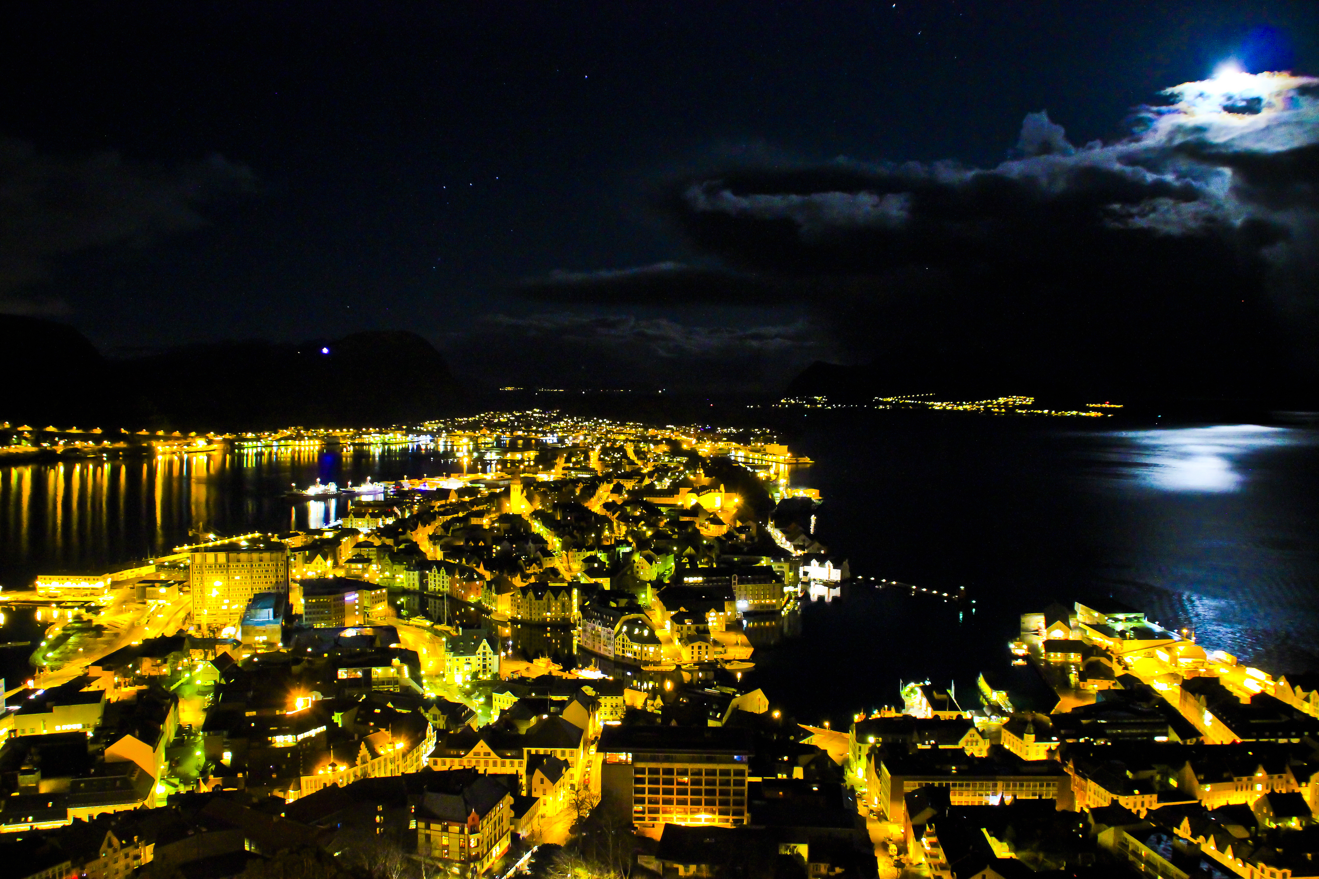 Aalesund in Norway by night